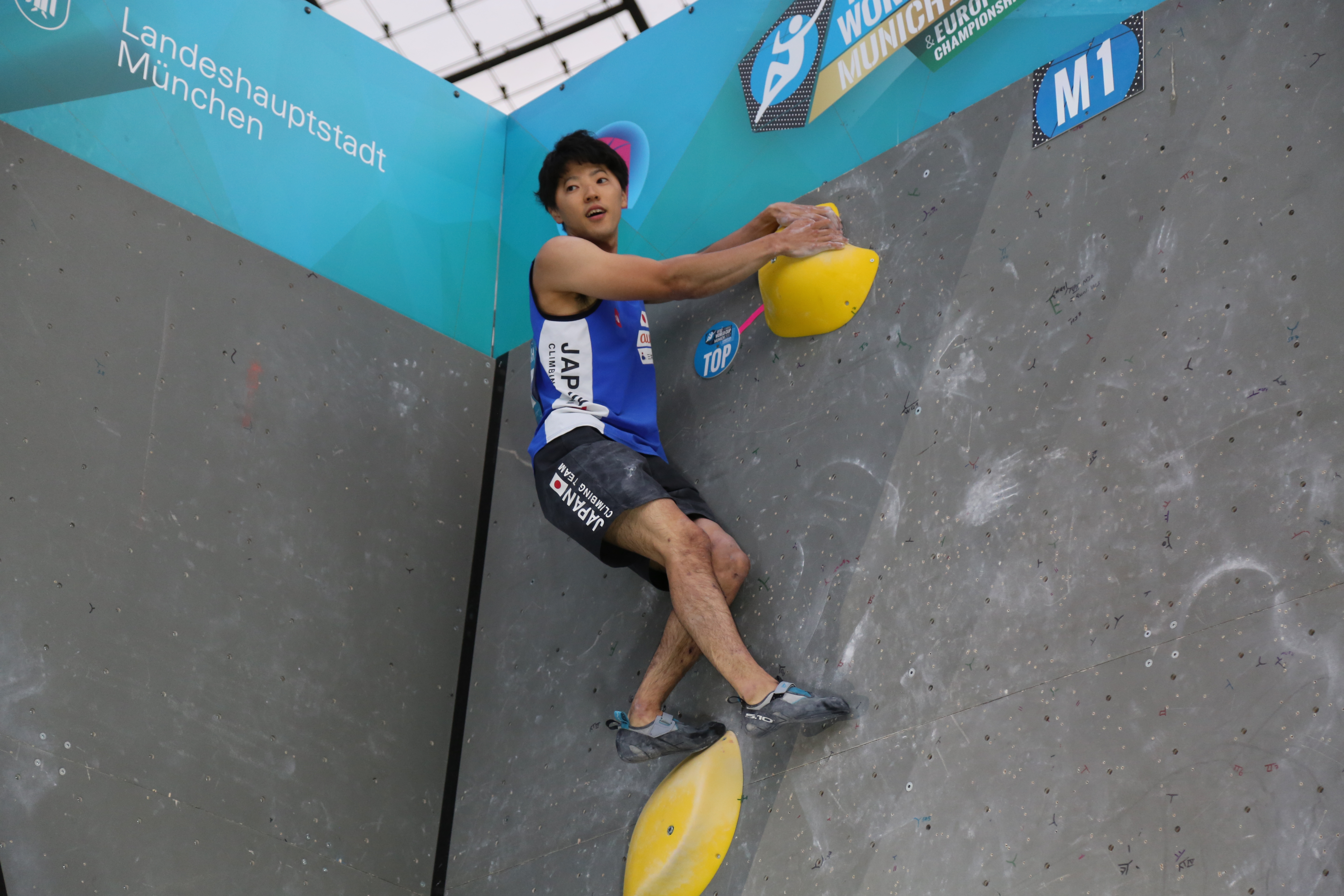 Kokoro Fujii JPN at the Boulder Worldcup 2017 in Munich, Germany.